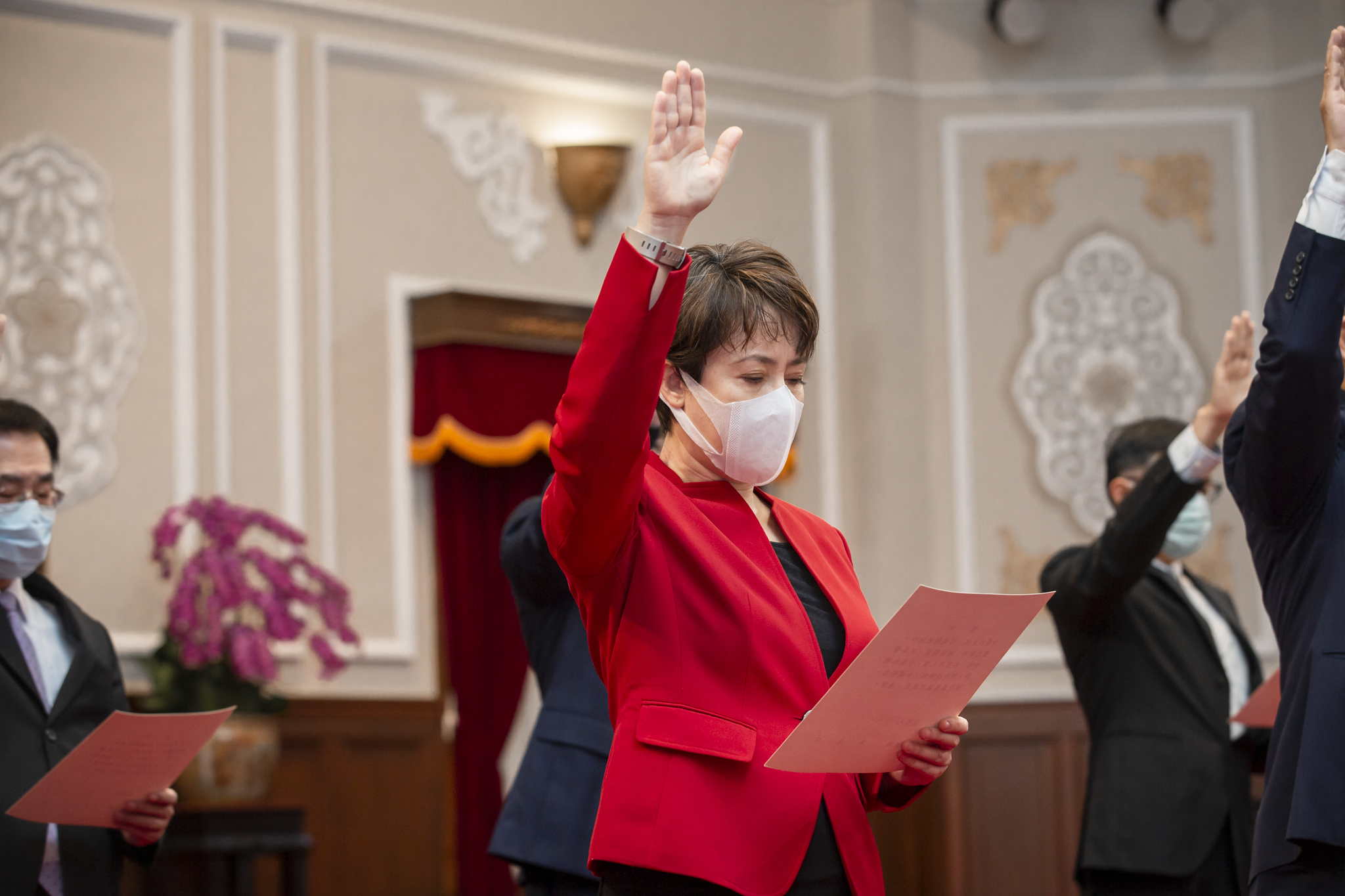 Official Photo by Mori / Office of the President